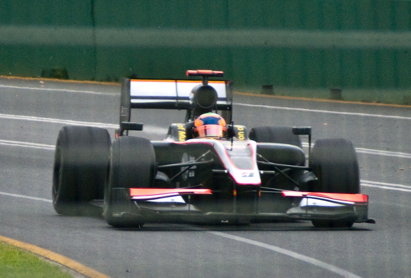 Chandhok during qualifying